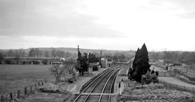 Bloxham Station (remains). View westward, towards Kingham; ex-GWR (Banbury) - King's Sutton - Kingham line, closed to passengers 4/6/51, completely 4/11/63.